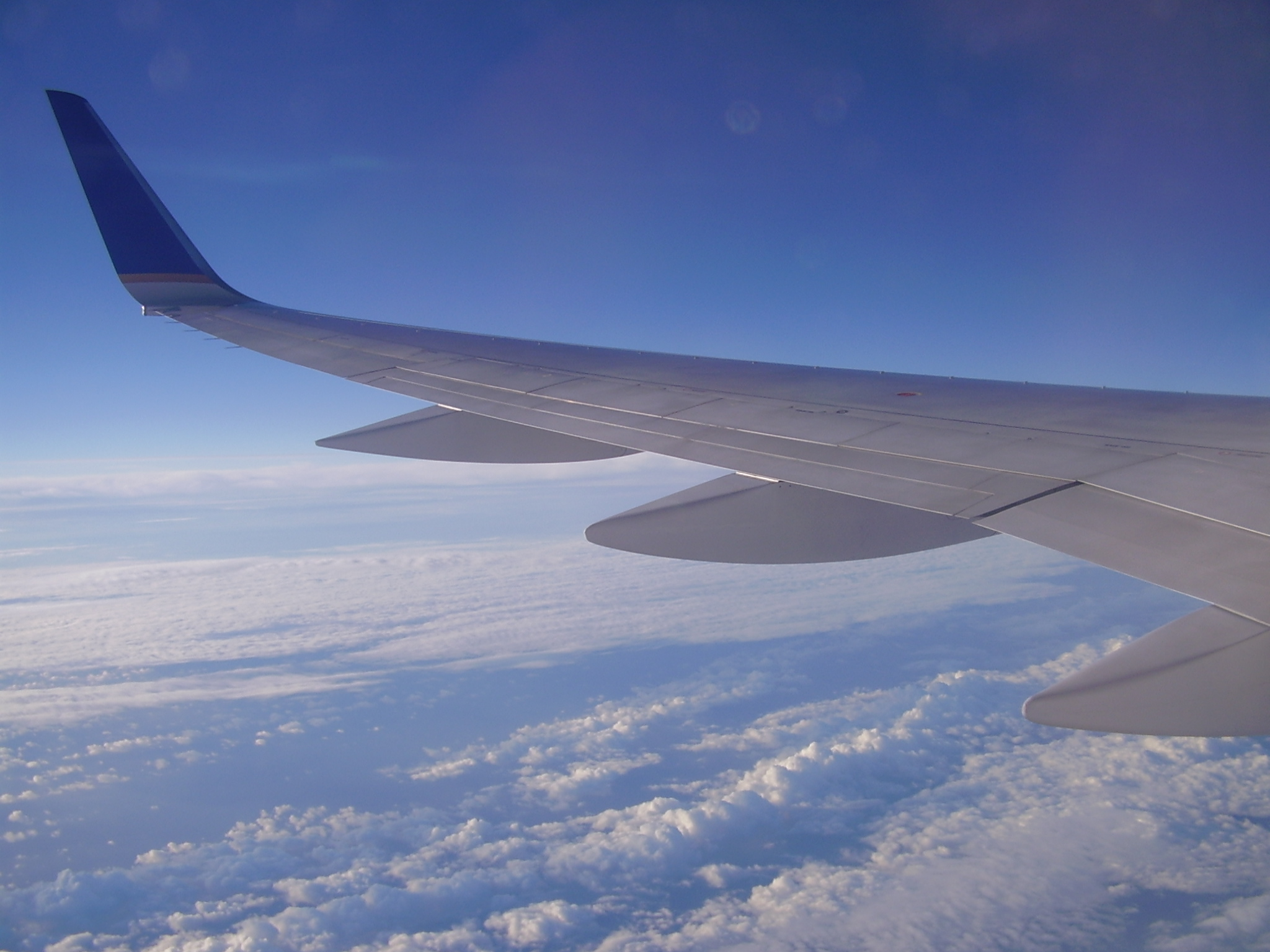 Winglet of a Boeing 757, Continental Airlines.